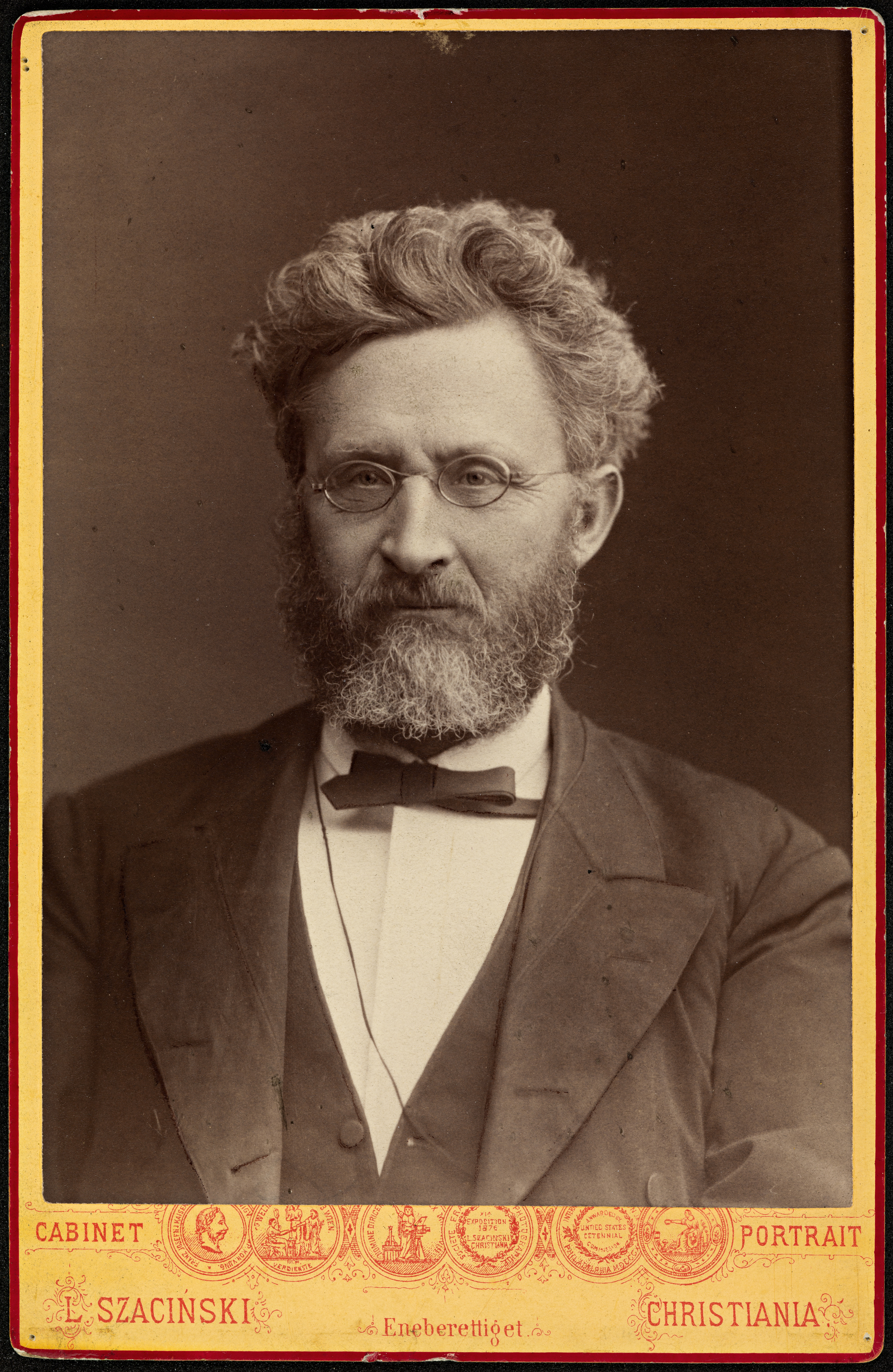 Beskrivelse / Description: Kabinettkort / Cabinet card. Carl Anton Bjerknes var fysiker og matematiker. Han var også far til fysikeren og meteorologen Vilhelm Bjerknes (1862-1951) Dato / Date: 1883 Fotograf / Photographer: L. Szacinski (Christiania) Digital kopi av original / Digital copy of original: s/h papirpositiv, kabinettkort. Eier / Owner Institution: Nasjonalbiblioteket / National Library of Norway Lenke / Link: Bildesignatur / Image Number: blds_06324